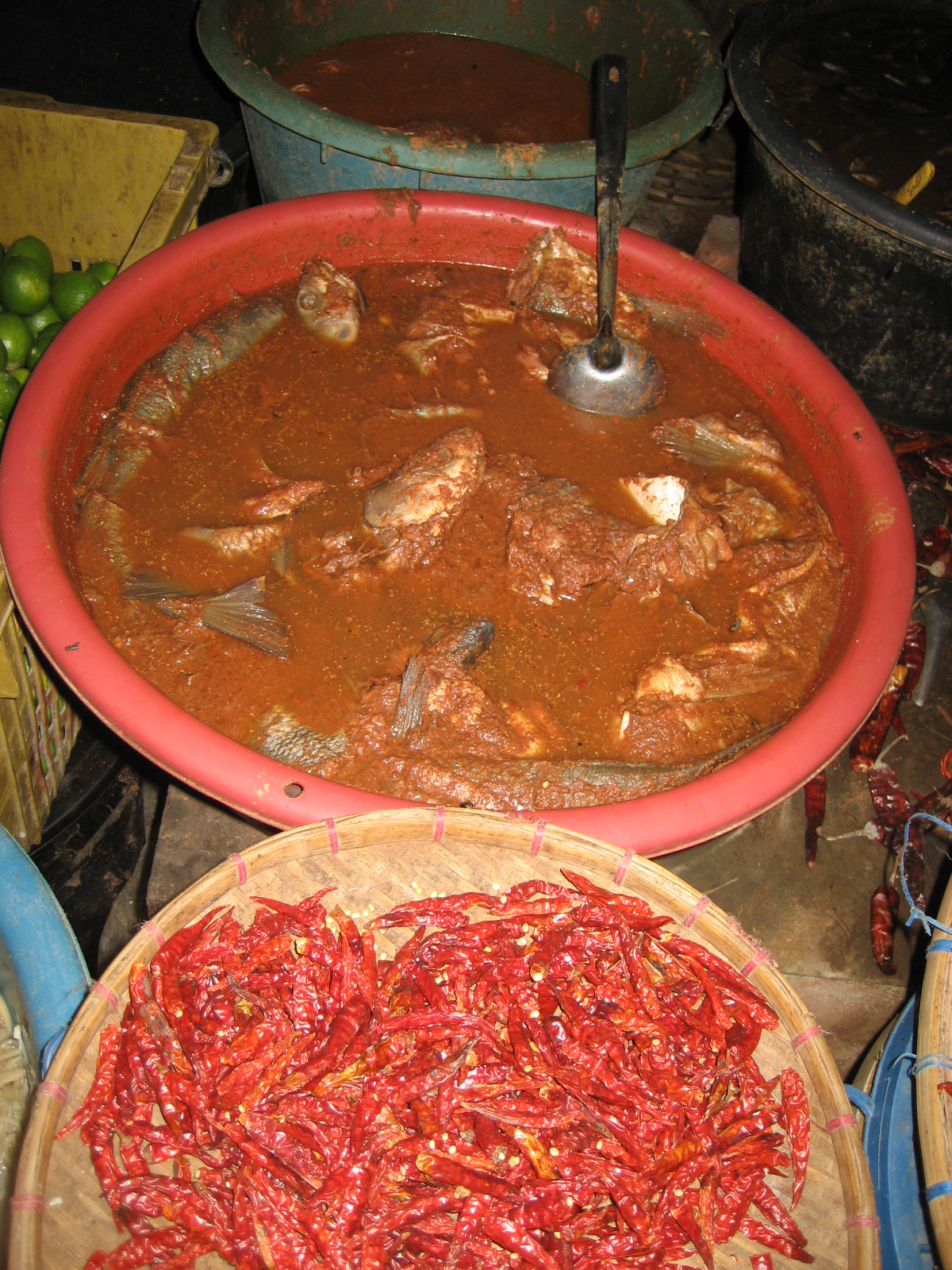 This is used to flavour many dishes over here, it's fish + salt left in water to rot an create delicious flavours...